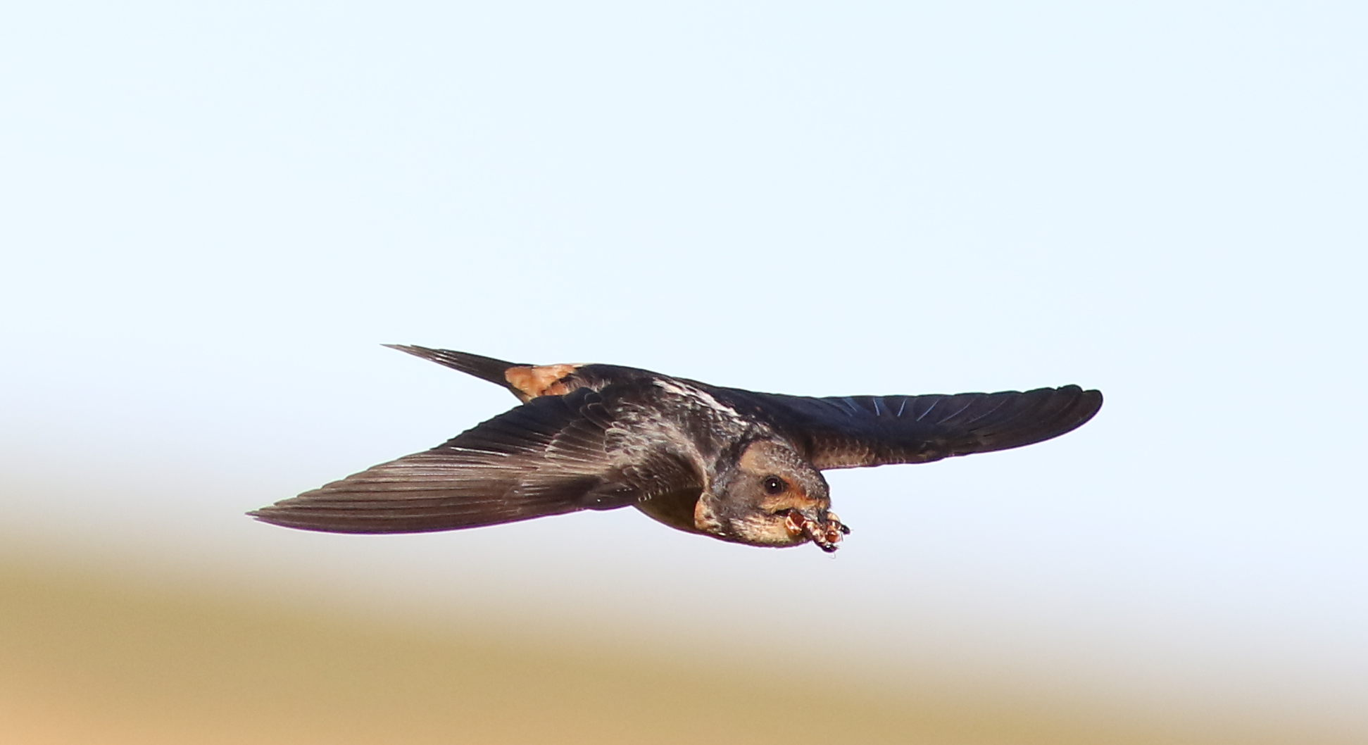 South African cliff swallow, Petrochelidon spilodera, at Suikerbosrand Nature Reserve, Gauteng, South Africa